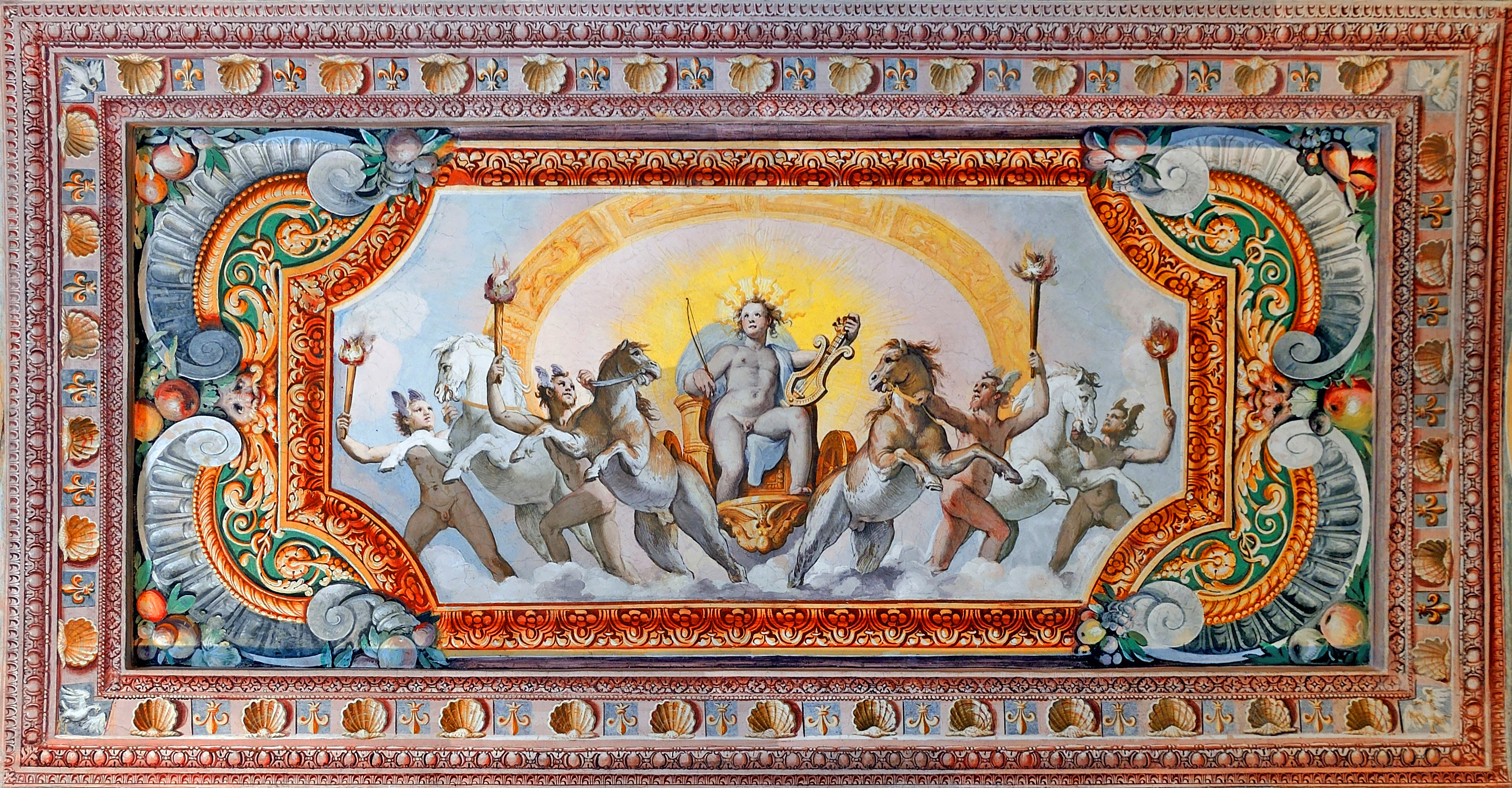 Fresco of hall of Apollo in Villa d'Este (Tivoli)